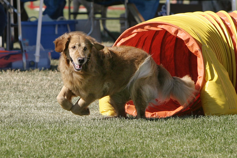 Golden Retriever doing dog agility tunnel – Perretta, owned by Mandy Book of San Jose, CA.